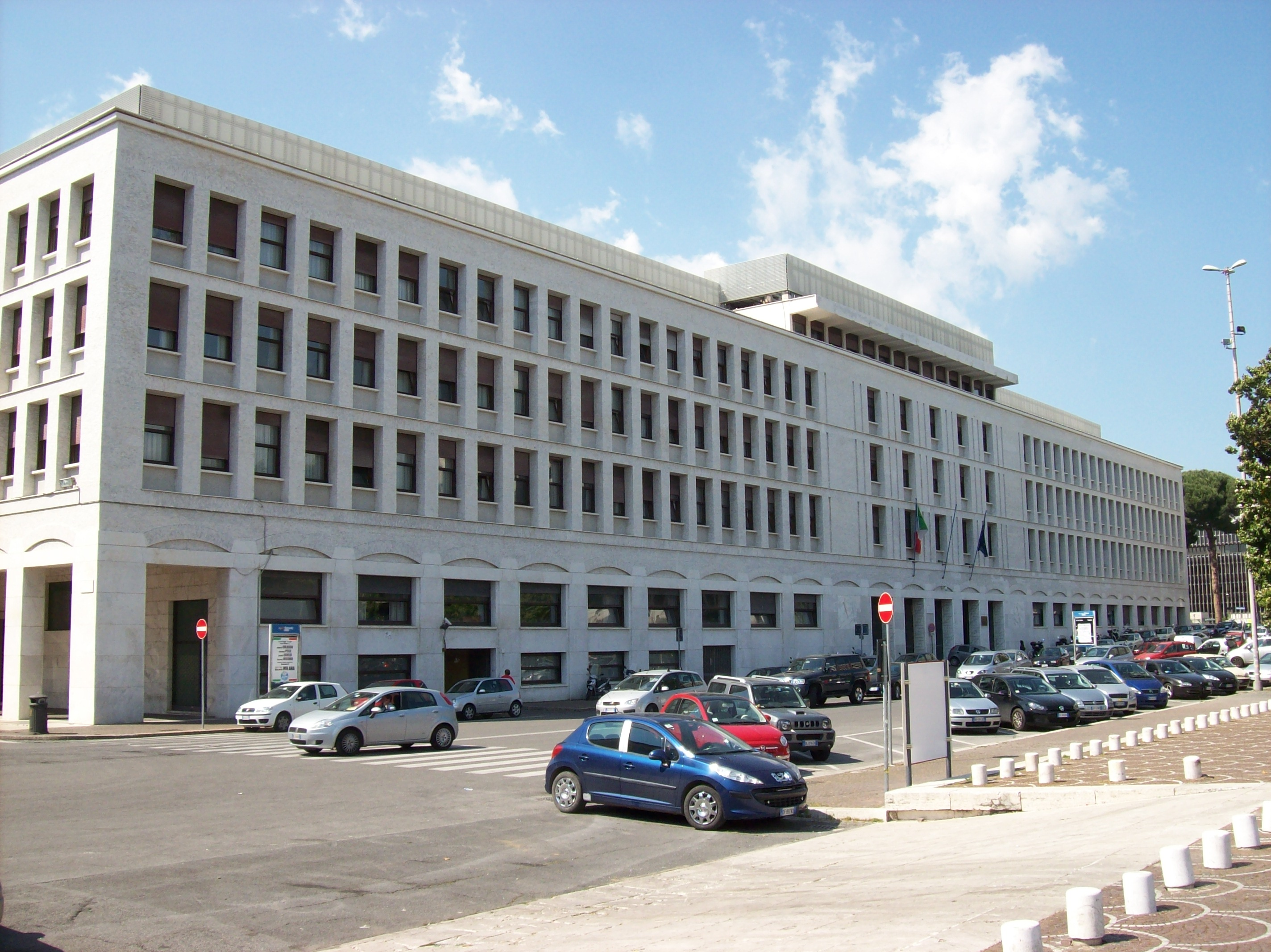 The building of the Ministry of University and Scientific Research in Rome, J.F. Kennedy square